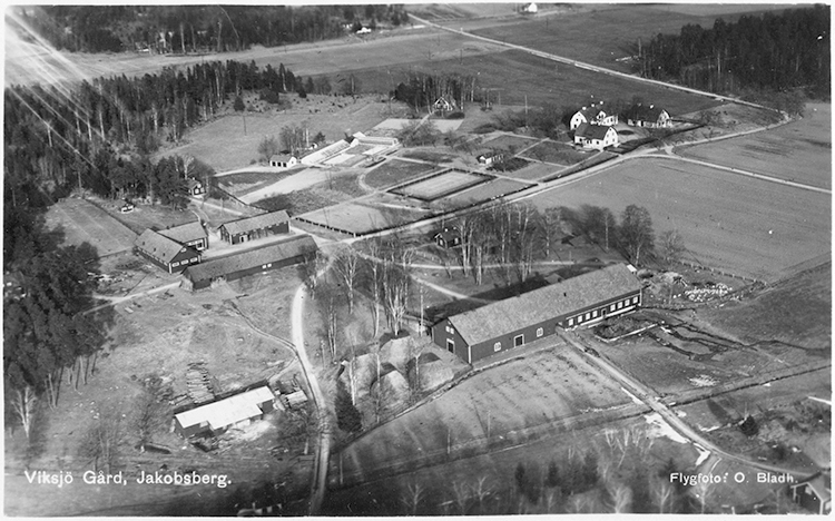 Viksjö gård, Jakobsberg, Järfälla socken, flygfoto början av 1940-talet. Foto av Oscar Bladh. Huvudbyggnaden med flyglarna till höger i bakgrunden. I förgrunden från vänster sågverket och ladugården. Ovanför ligger stallbacken.